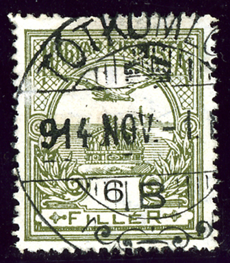 Kingdom of Hungary 6 fillér stamp, issue 1913, cancelled at TÓTKOMLÓS (Hungary) in 1914.